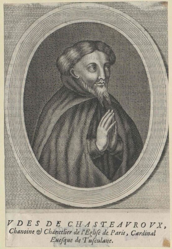 French theologian and scholastic philosopher, papal legate and Cardinal